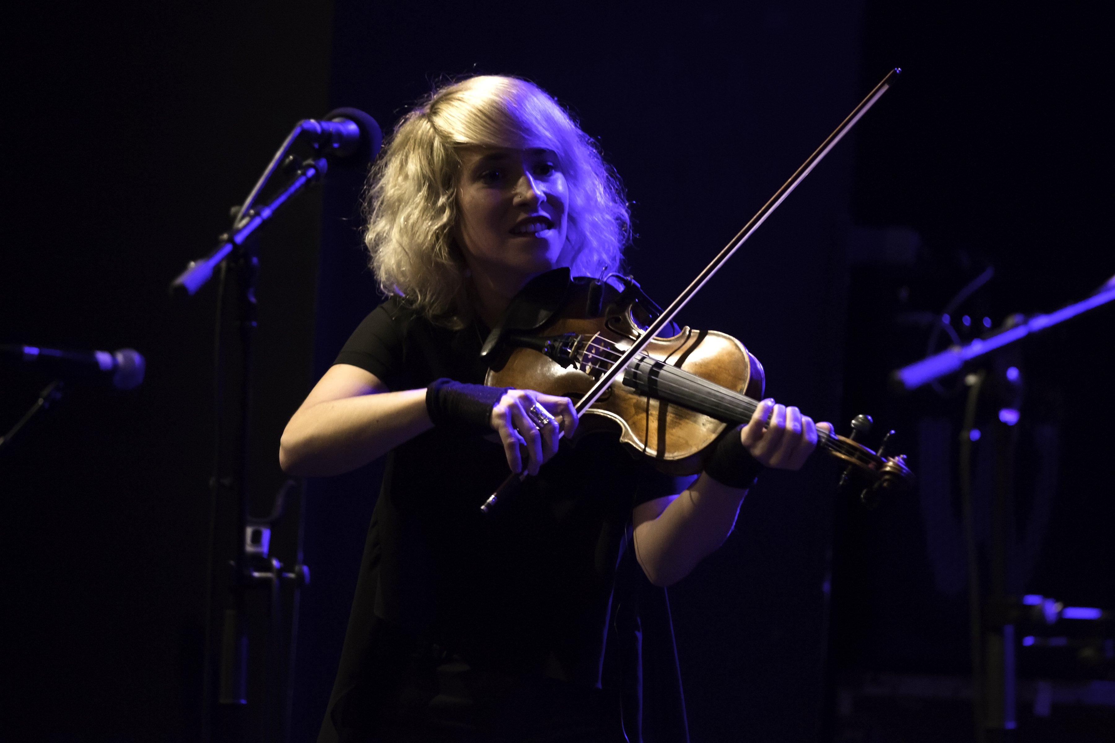 Alma - Austrian World Music Awards 2015 at Porgy&Bess in Vienna, Austria.